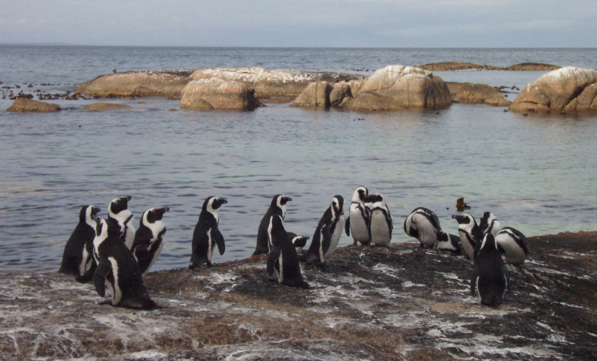 African Penguins at Boulders Beach in South Africa.